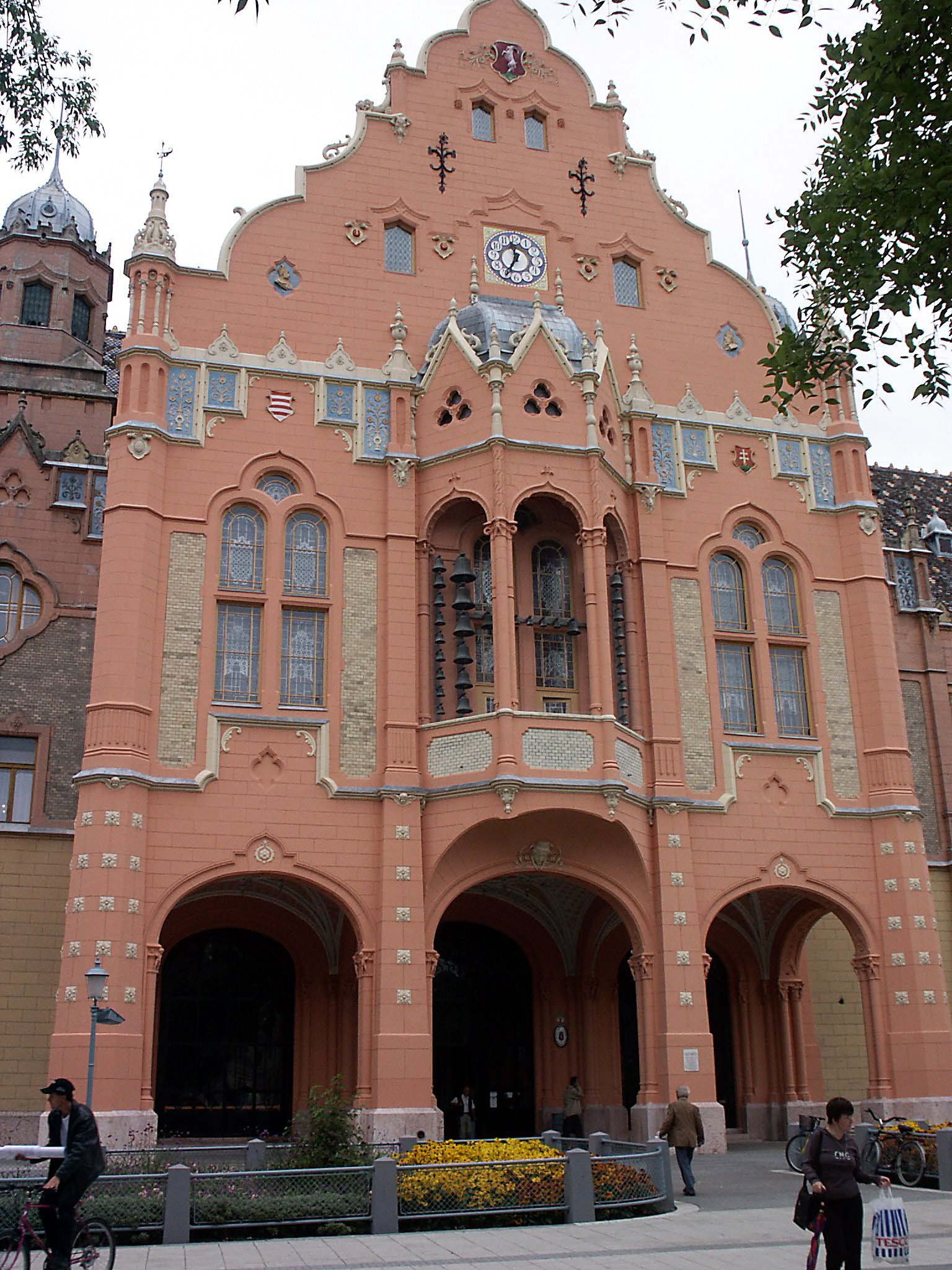 Author: Graham Berry, ©2002